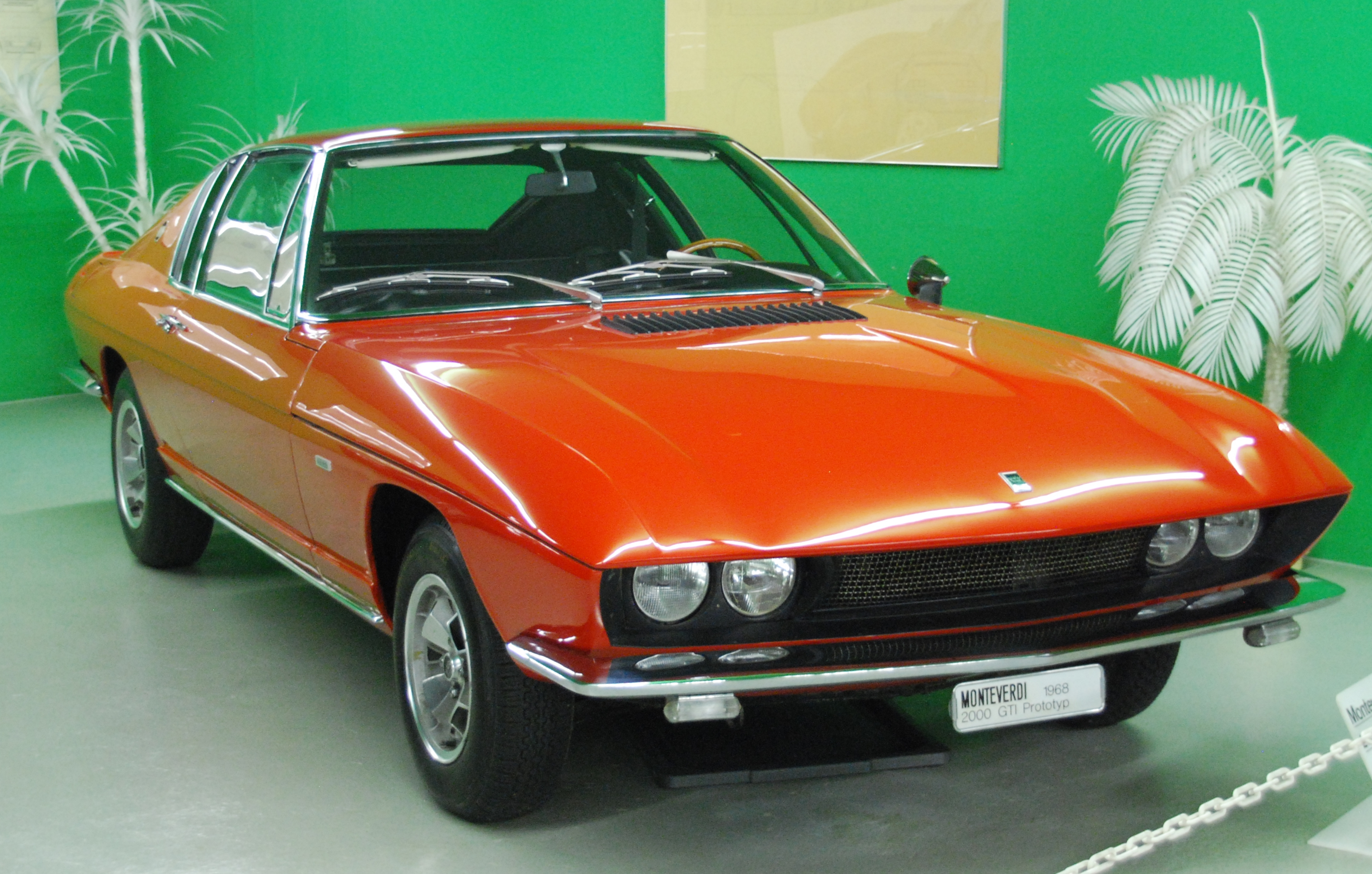 Monteverdi 2000 GT Prototype/One-off